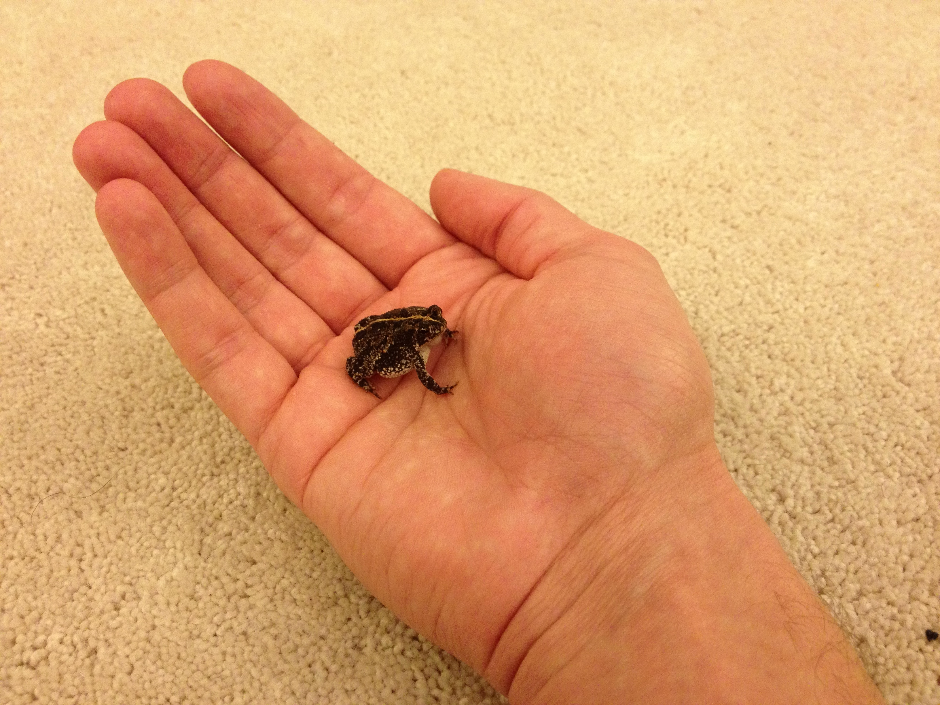 Male oak toad photographed in hand.